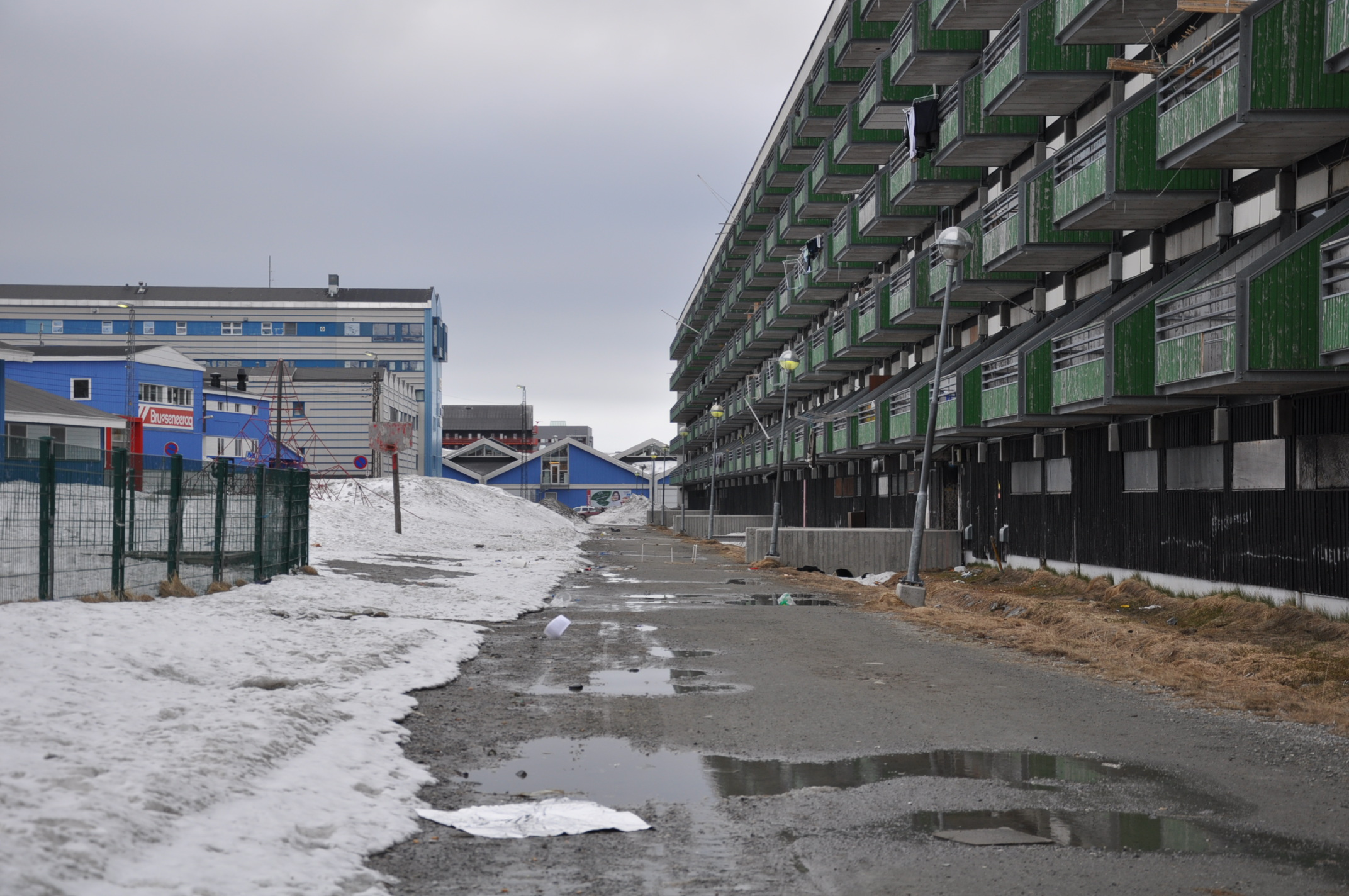 Southern side of Blok P, the largest apartment building in Nuuk (and in all Greenland).